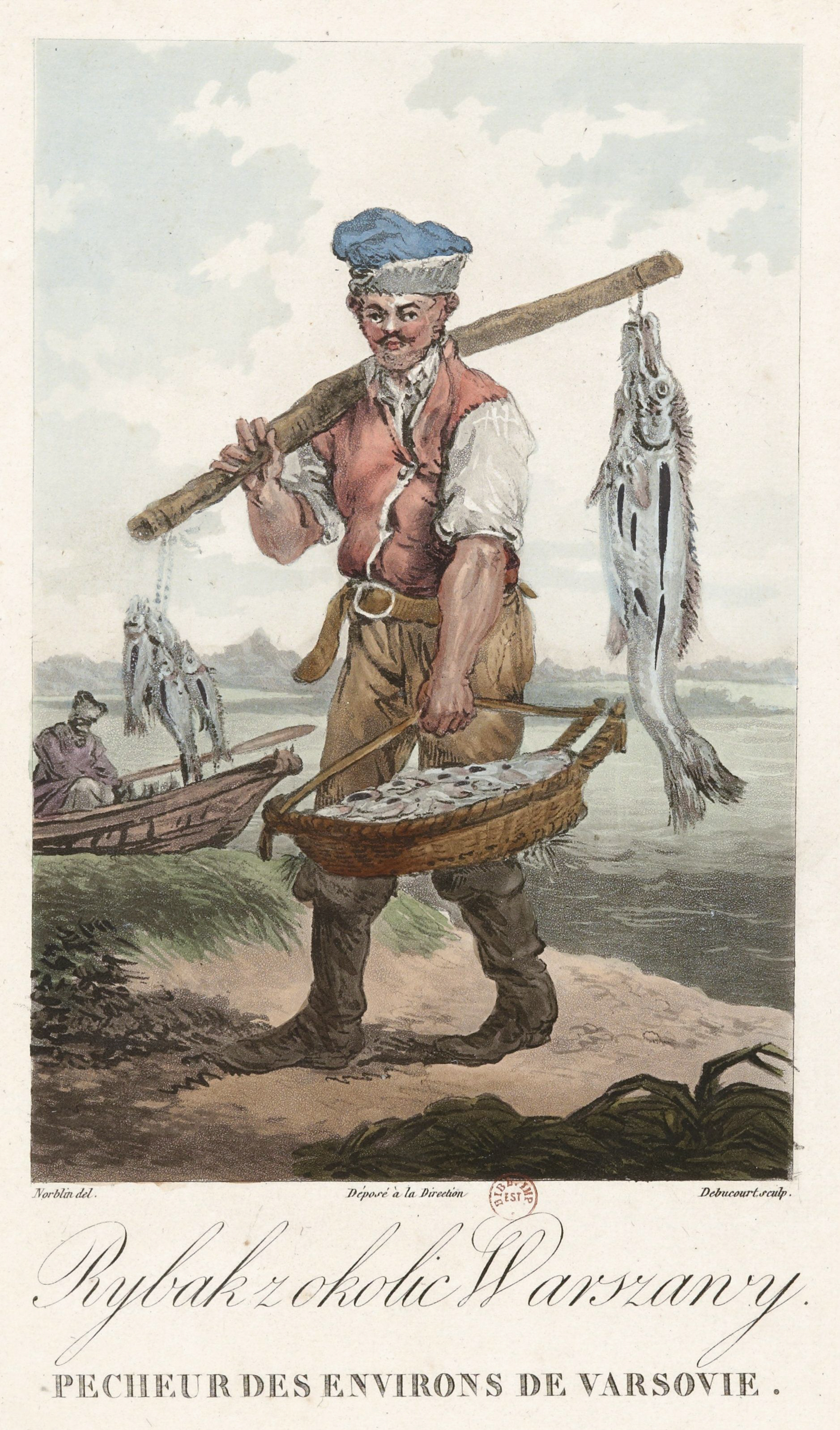 Fisherman from the vicinities of Warsaw